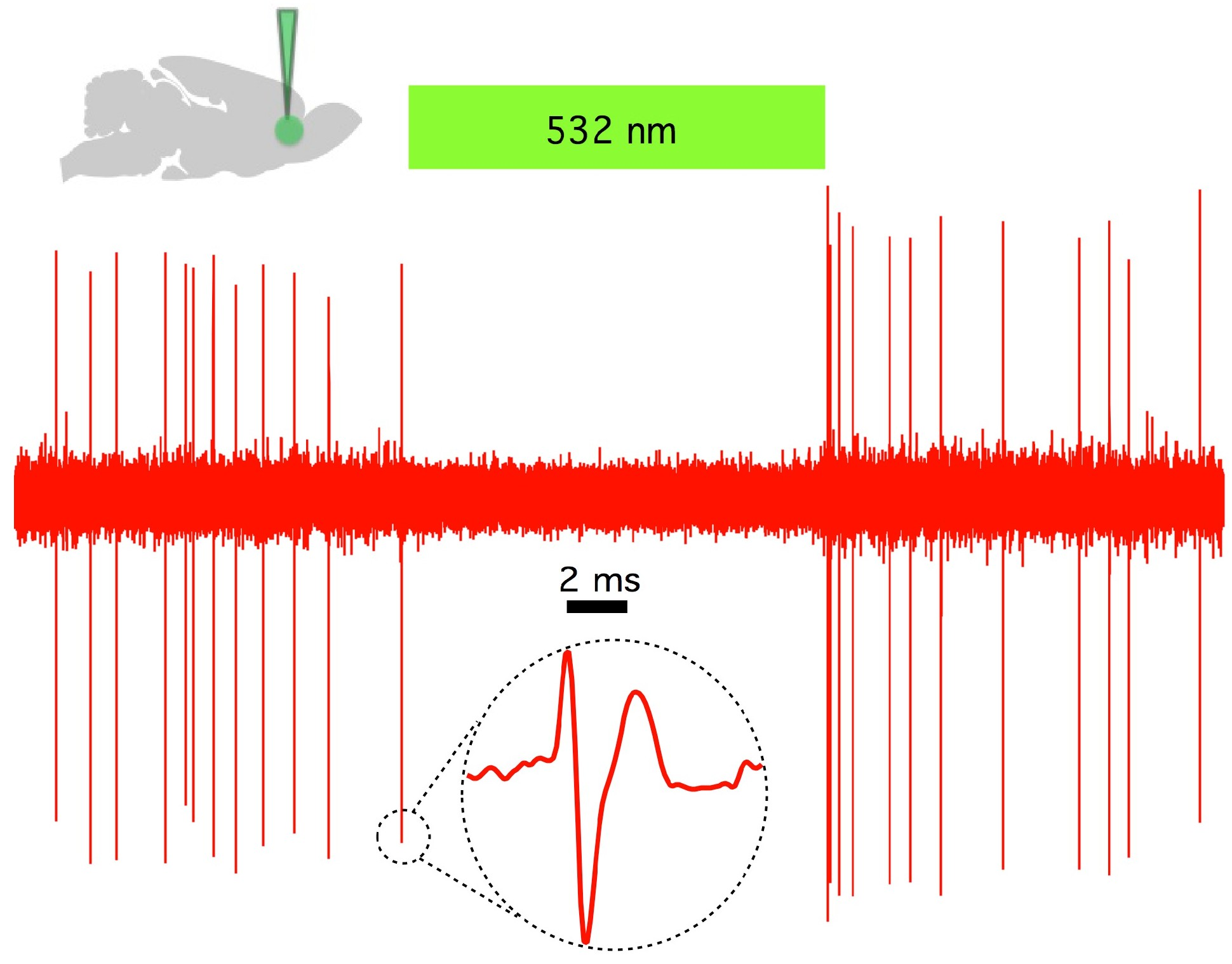 Cooper laboratory in vivo recording of optogenetic silencing of a rat prefrontal cortical neuron using green light in neurons expressing AAV-NpHR.